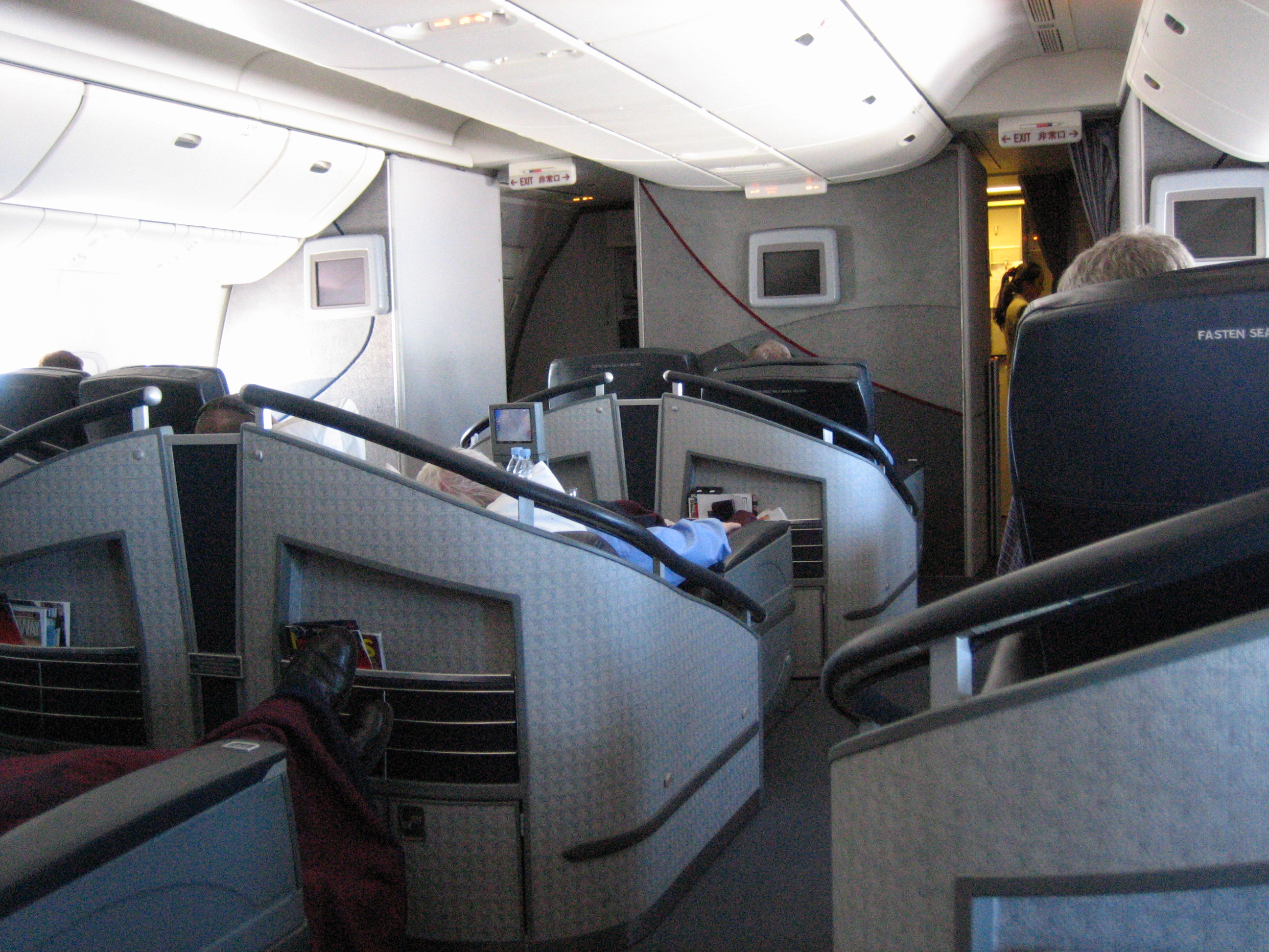 First class cabin in a plane (American Airlines)